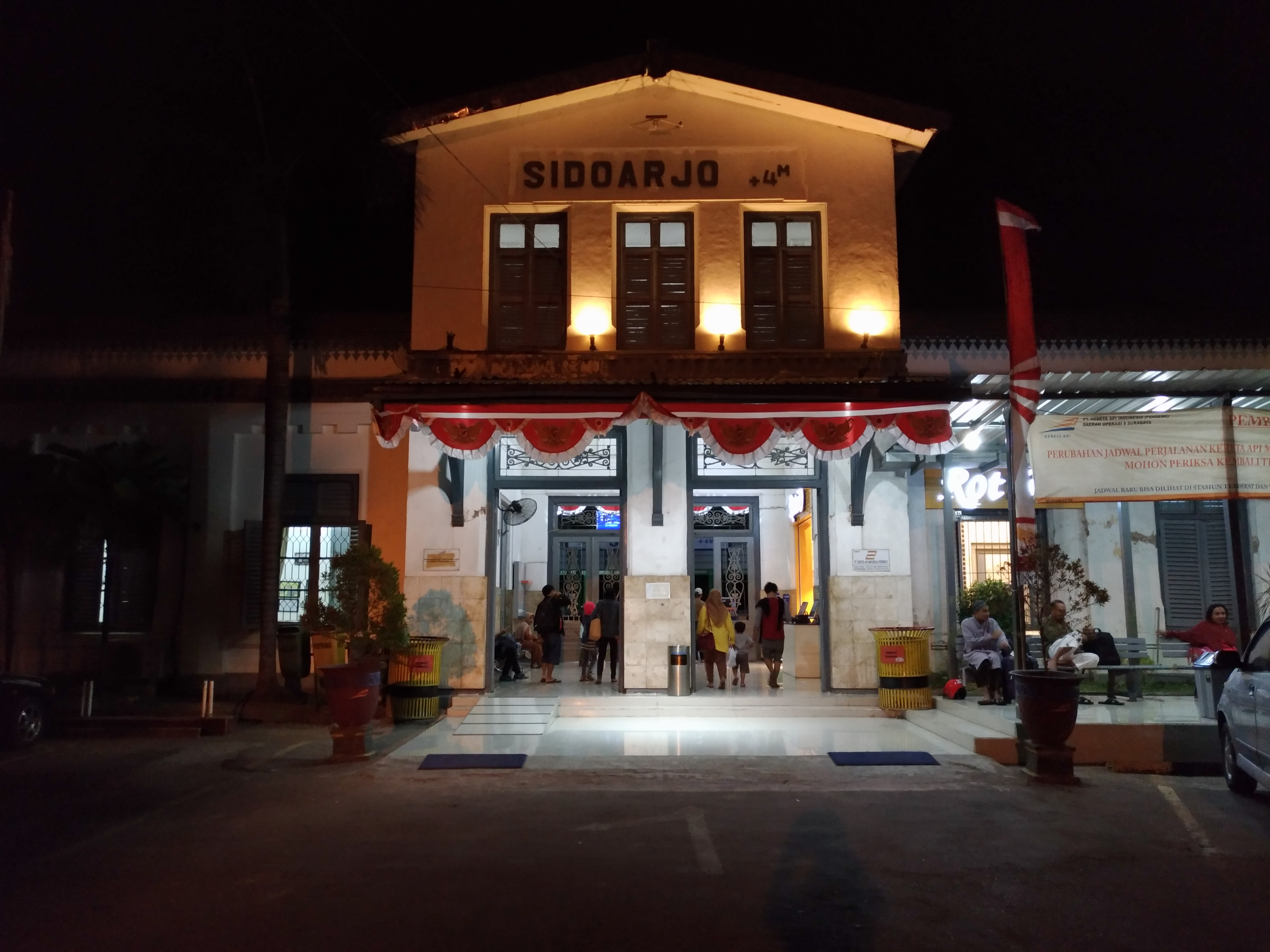 Night in Sidoarjo Train Station at August 17th.